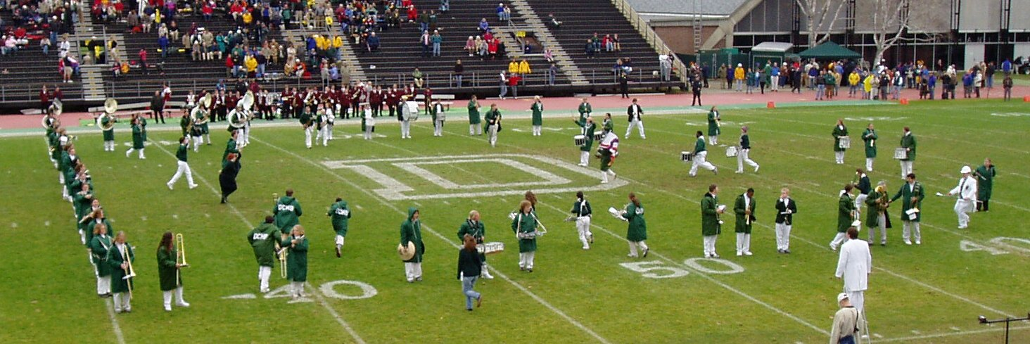 A photo of the Dartmouth College Marching Band, Fall 2004, Dartmouth vs Harvard football game halftime, scattering into the traditional 'D' formation.